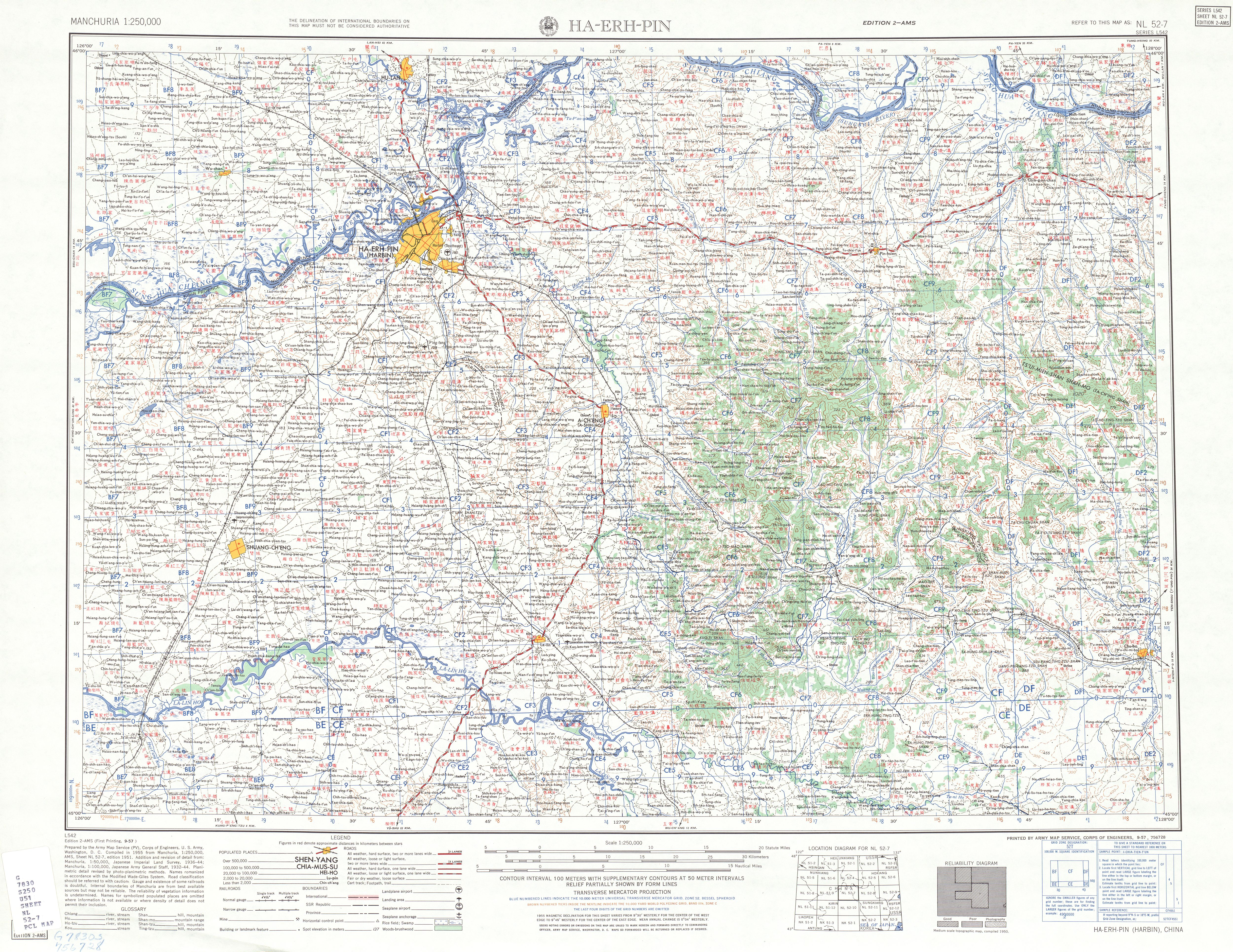 Manchuria AMS Topographic Maps